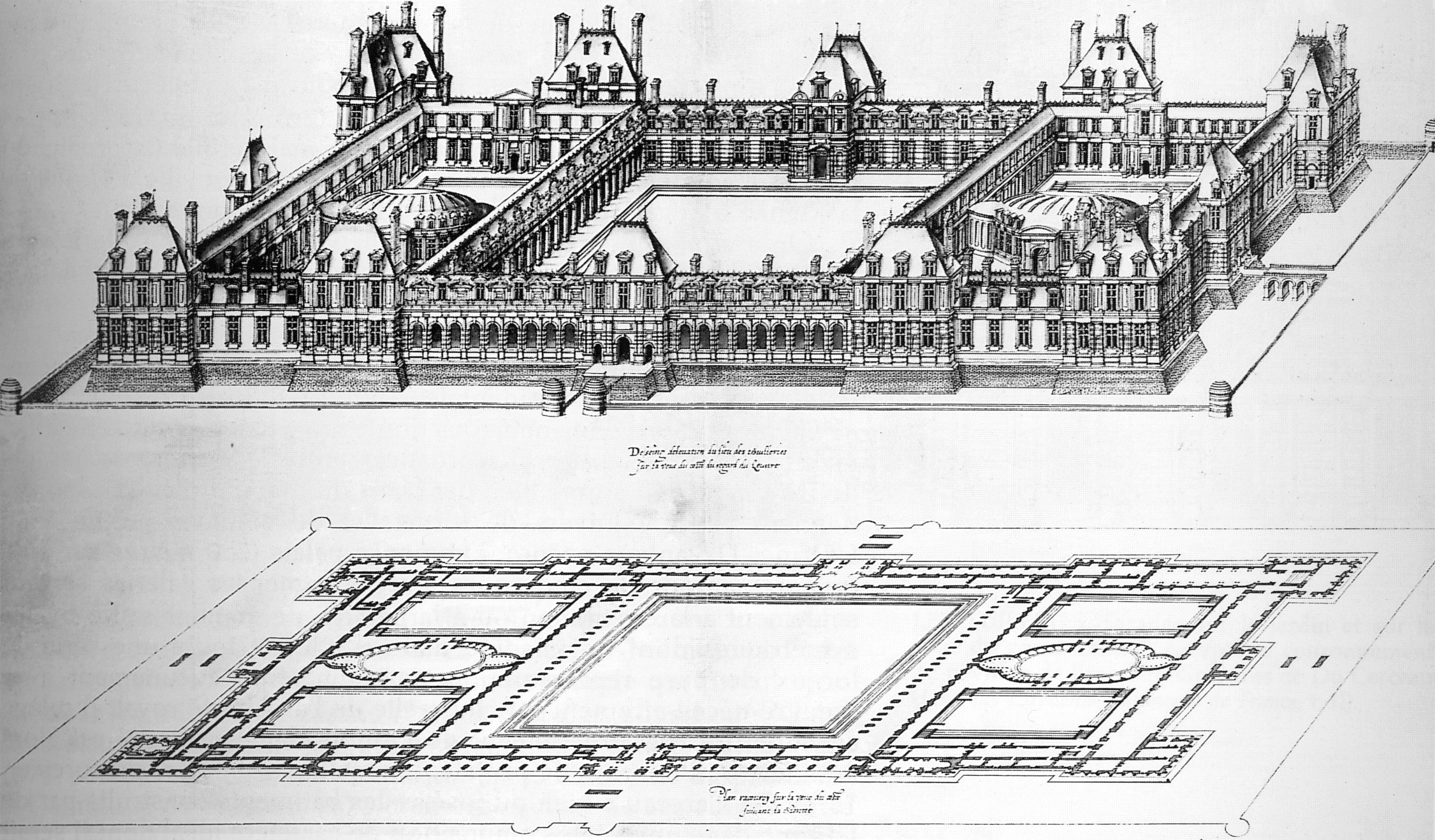 Drawing of an enlargement project of 1578 to 1579 for the Tuileries Palace